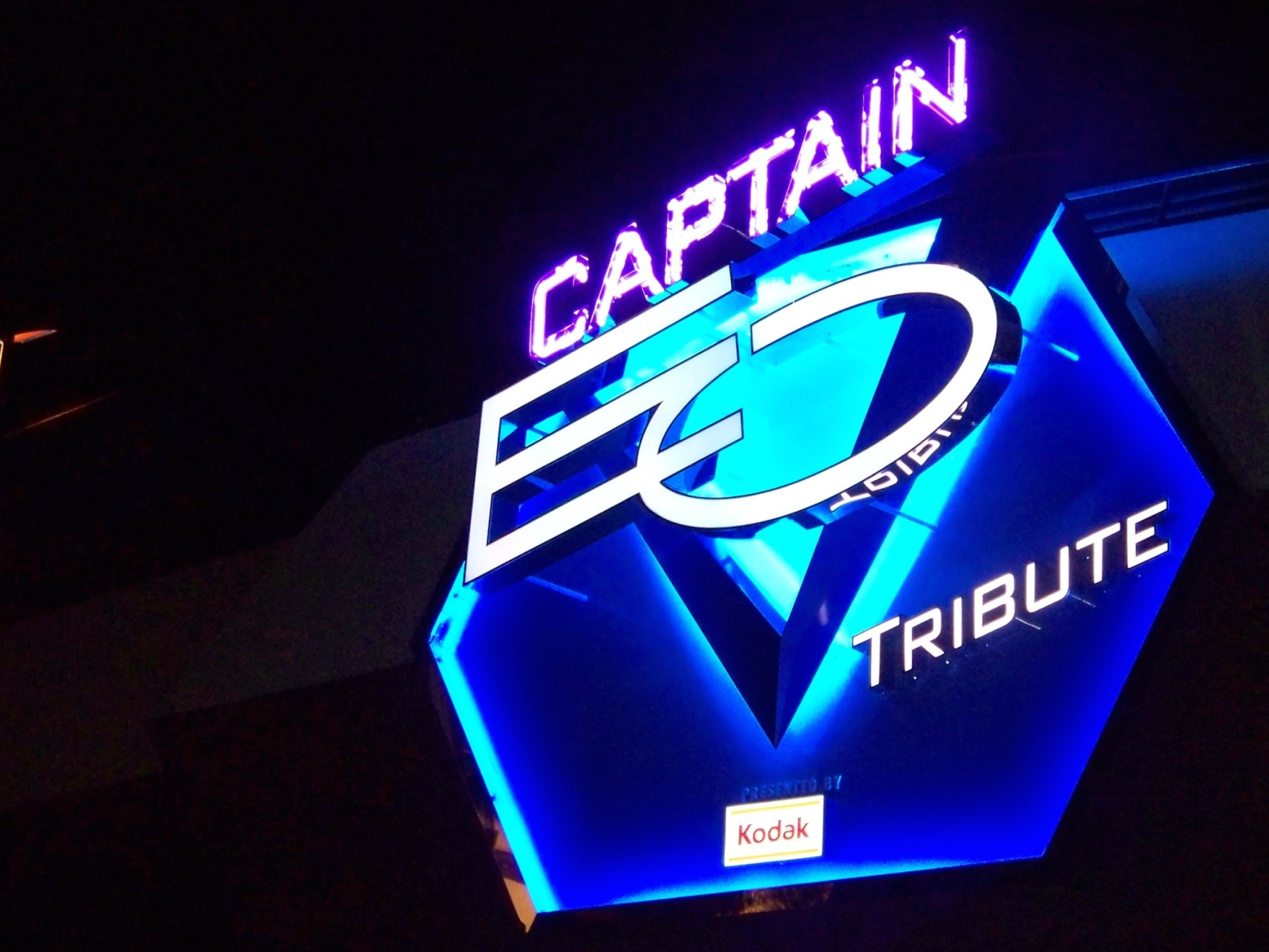 The impressive new Captain EO sign as seen on February 25, 2010. Captain EO returned to Disneyland on February 23, after a 13-year hiatus, evicting the very attraction that originally replaced it, Honey, I Shrunk the Audience.